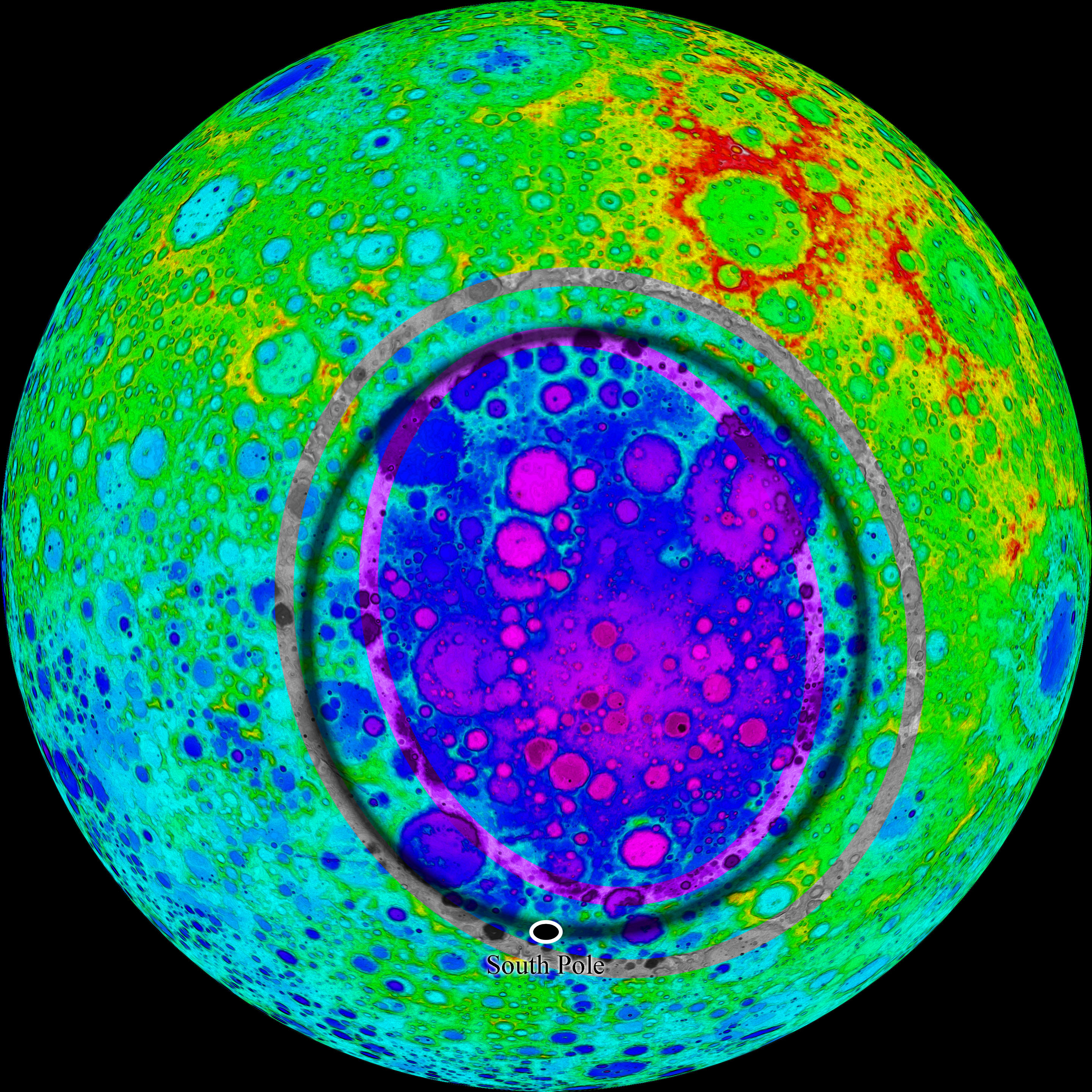 South pole Aitken basin on the moon, from JAXA's Kaguya data. Viewed at -45 degrees. The black ring is an old approximation; the elliptical purple and grey rings trace the inner and outer rings per [1] (fig. 2 from Garrick-Bethell and Zuber, 2009